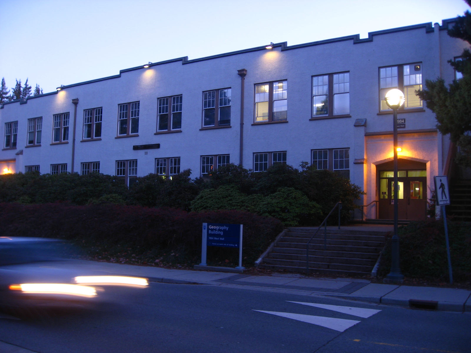 University of British Columbia (UBC) Department of Geography Building.